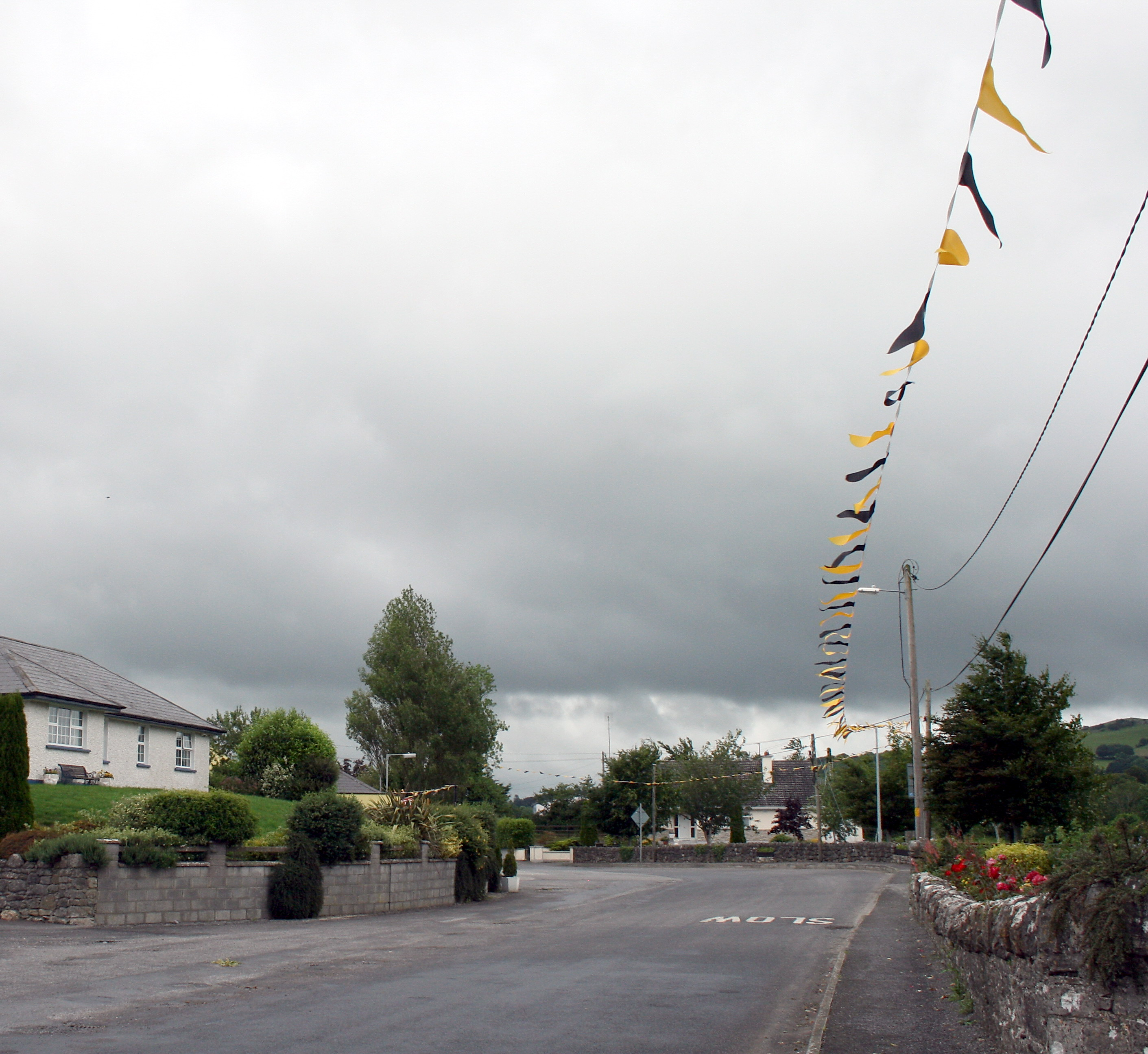 Bunting in Rosemount, County Westmeath